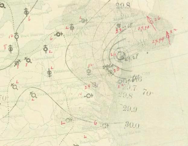 Surface weather analysis of the New York hurricane on 24 August 1893.